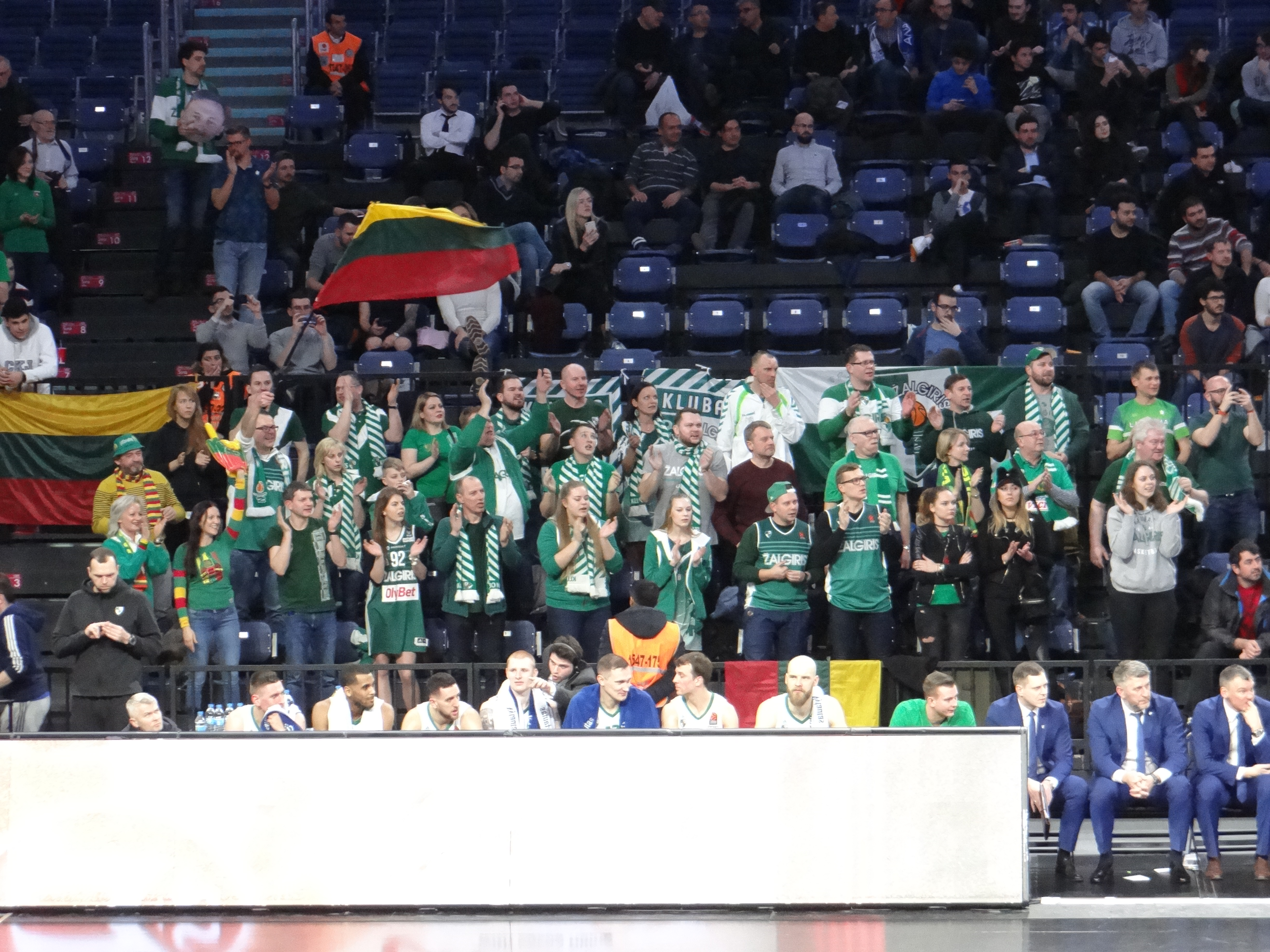 Anadolu Efes vs BC Žalgiris EuroLeague 20180223